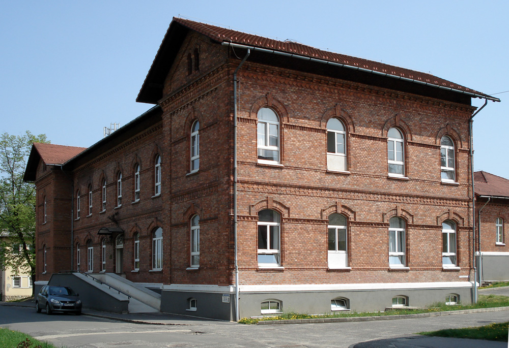 A building of Diósgyőr (Vasgyár) Hospital, Miskolc, Hungary